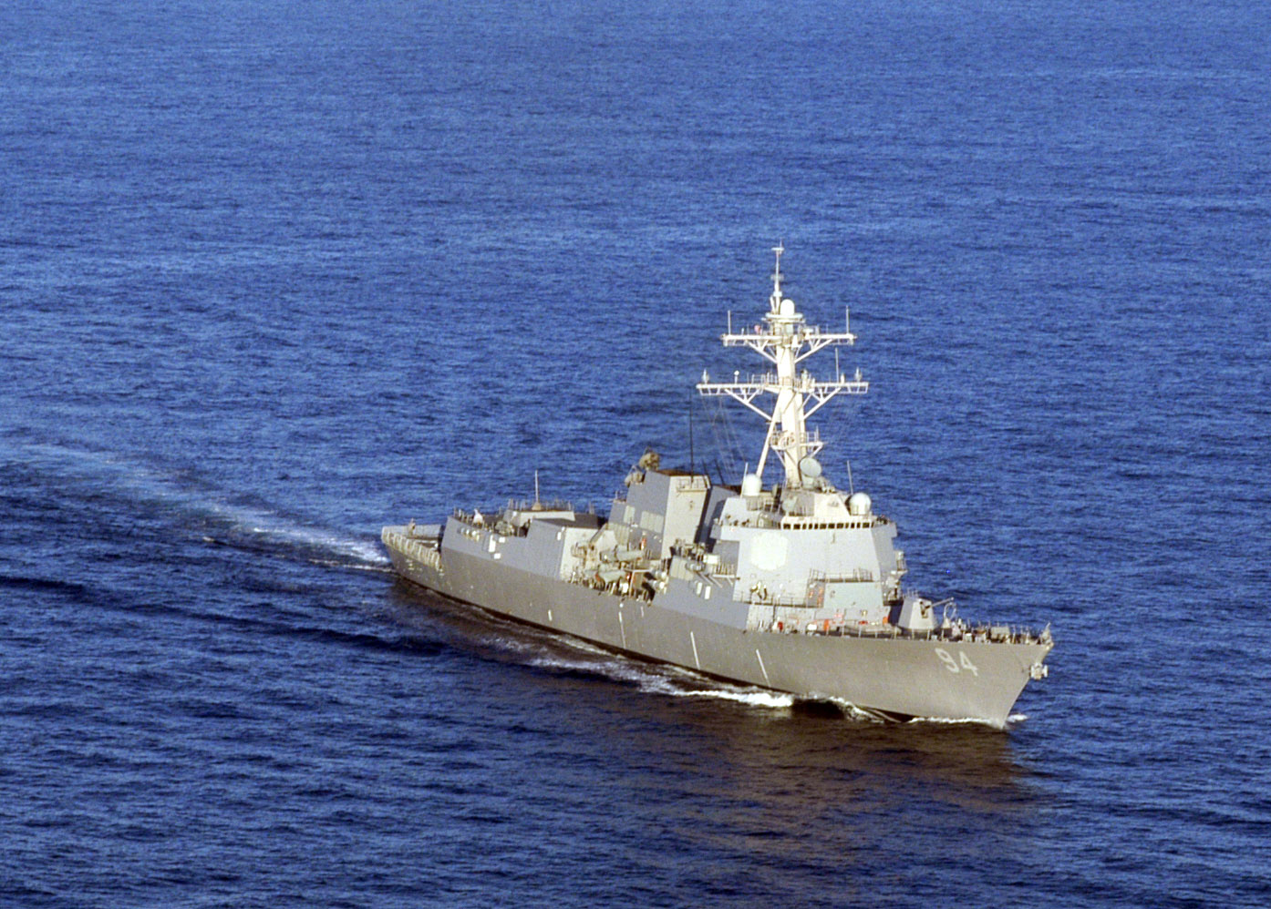 Atlantic Ocean (Oct. 29, 2006) — Guided-missile destroyer USS Nitze (DDG-94) steams through the Atlantic Ocean. Nitze is underway to assist the USS Bataan Expeditionary Strike Group (ESG) during their Composite Training Unit Exercise (COMPTUEX). The Bataan ESG is off the coast with the 26th Marine Expeditionary Unit, based out of Camp Lejeune, N.C., prior to an upcoming regularly scheduled deployment.